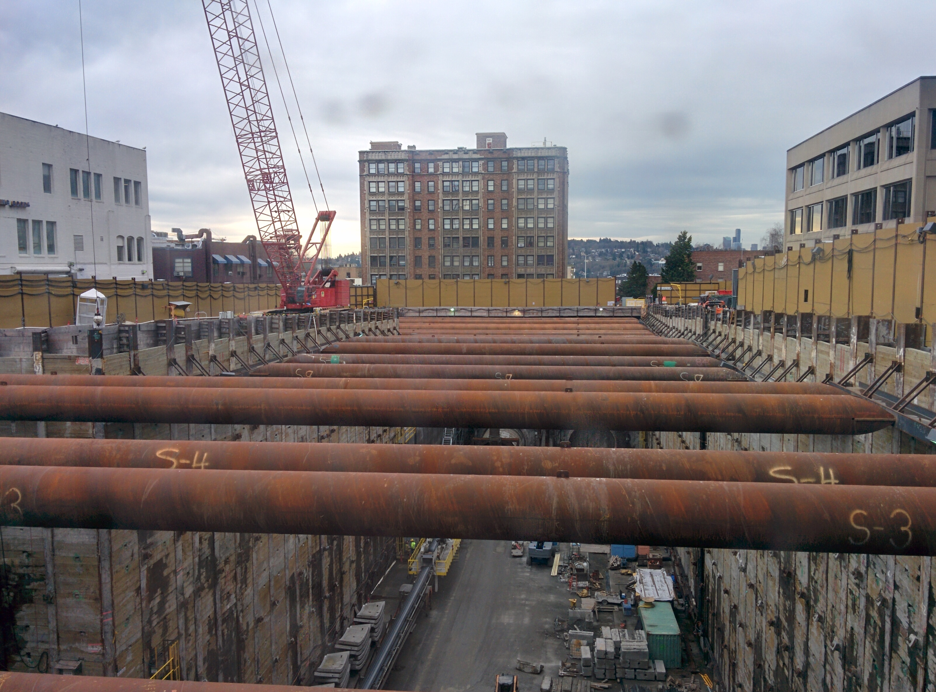 U District light rail station construction site, looking south.